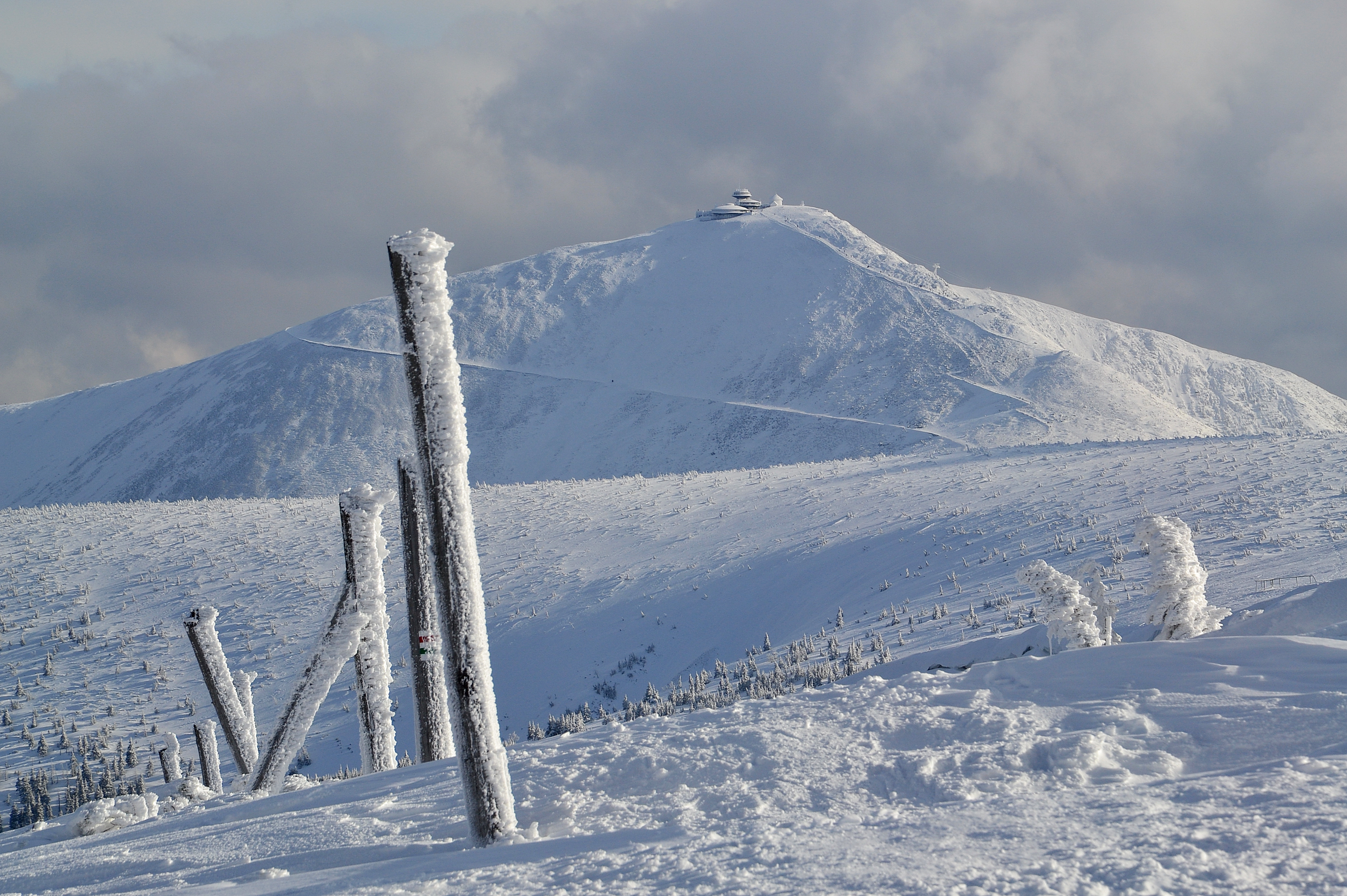 Śnieżka (Sněžka, Schneekoppe) - view from Słonecznik (Mittagstein, Polední kámen). Karkonosze (Riesengebirge) mountains